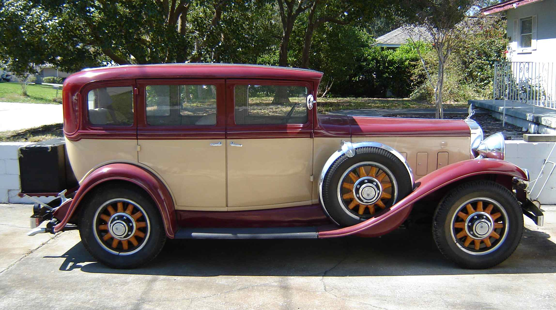 1931 Peerless woodland